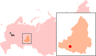 Location of Yekaterinburg (red dot) in relation to Sverlovsk Oblast and Russia (Moscow)